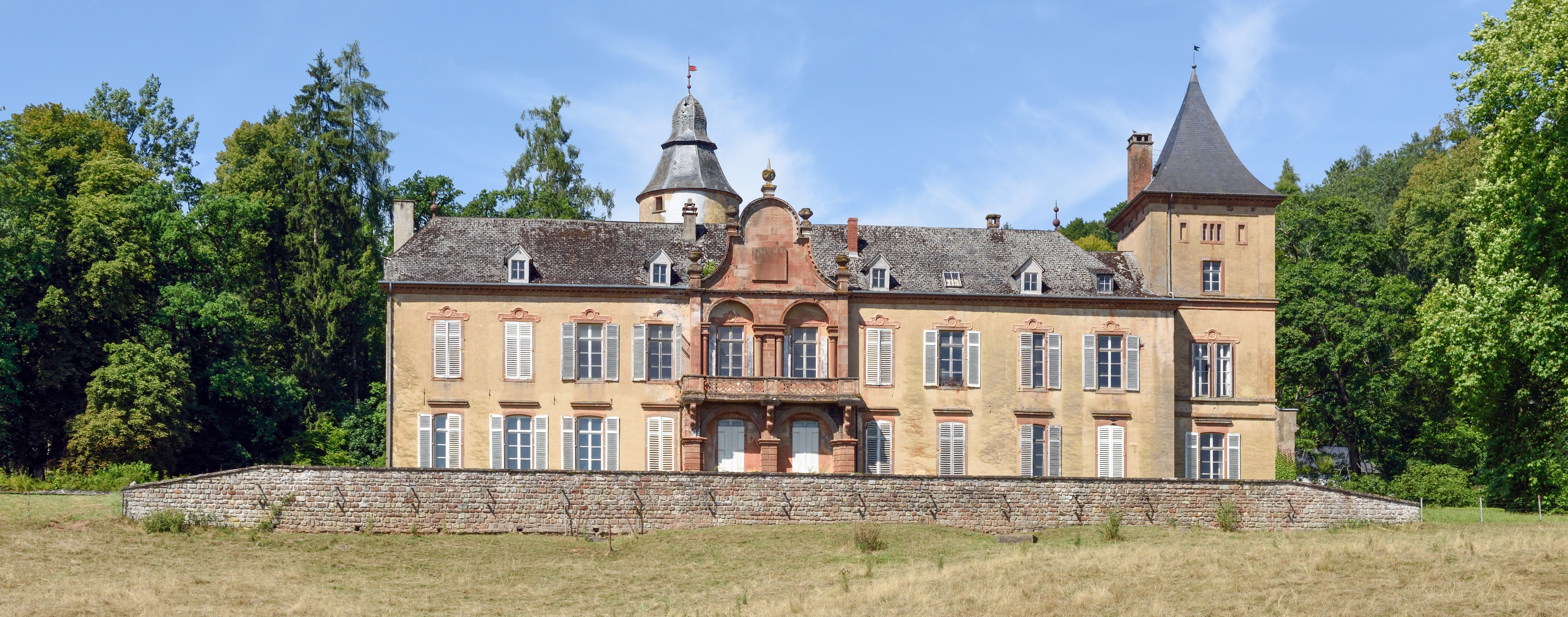 Birtrange Castle at Birtrange, commune of Schieren, Luxembourg.